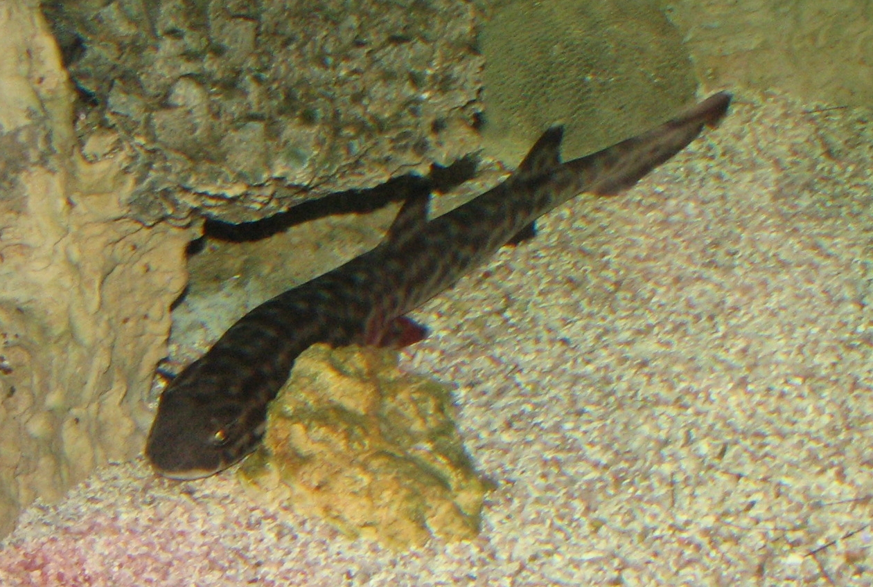 Coral Catshark (Atelomycterus marmoratus) at Newport Aquarium